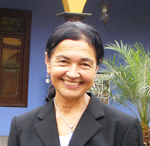 R Shady